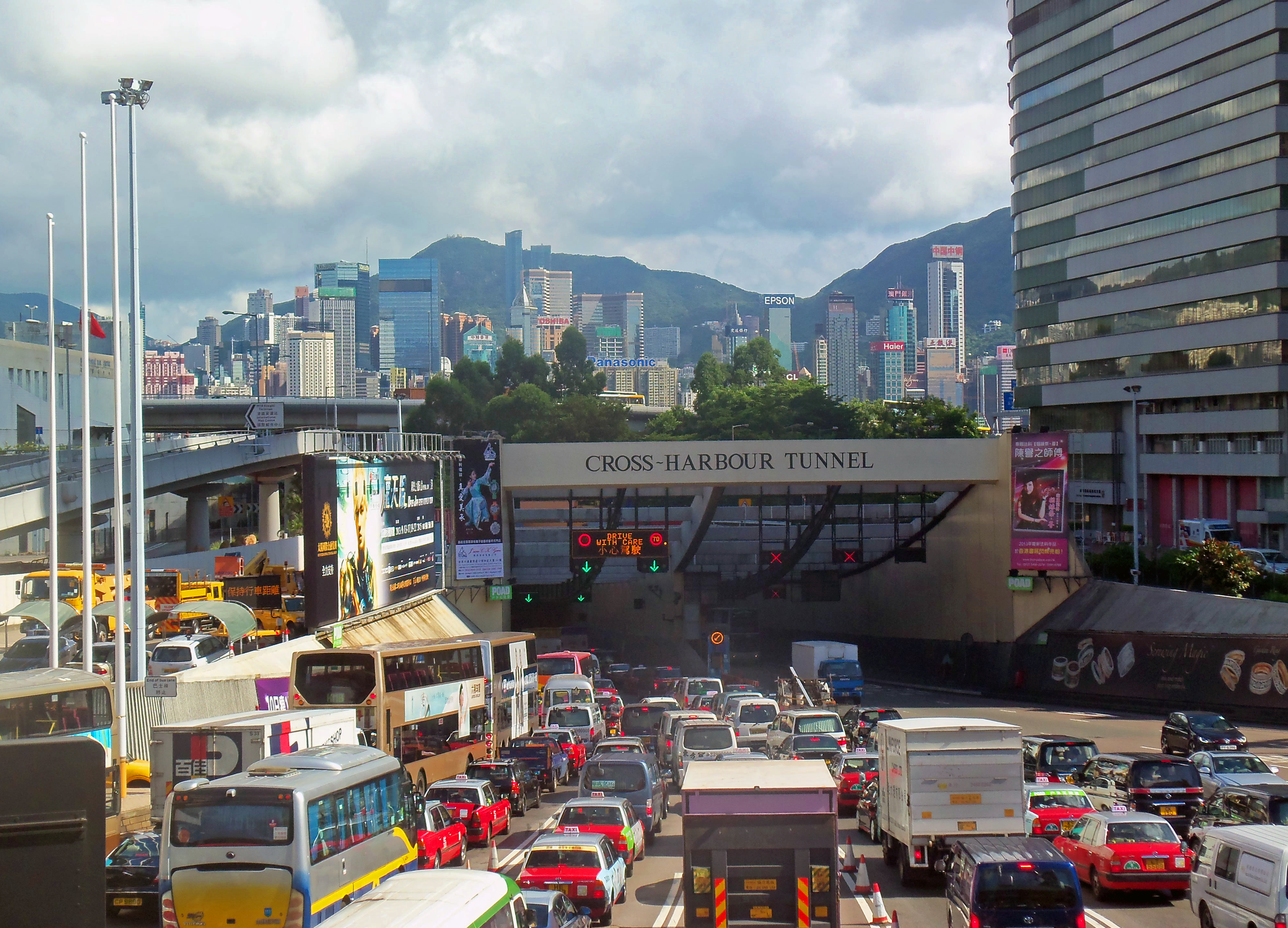 Kowloon-side portal of Cross-Harbour Tunnel